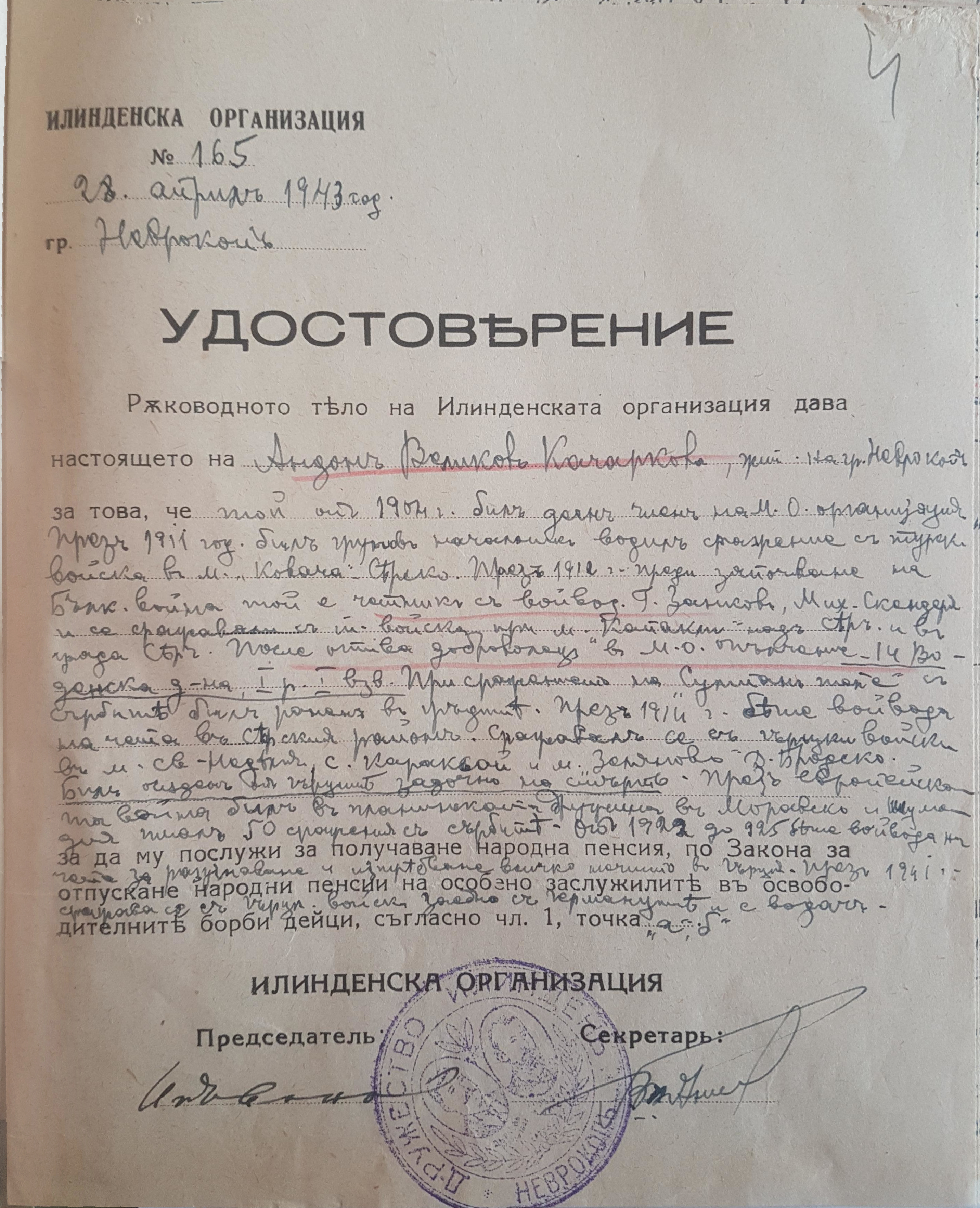 Ilinden Organization Certificate to Andon Kacharkov